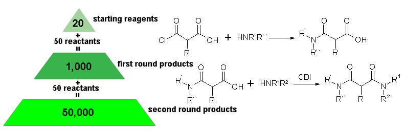 Pyramid technique for producing large combinatorial chemical libraries